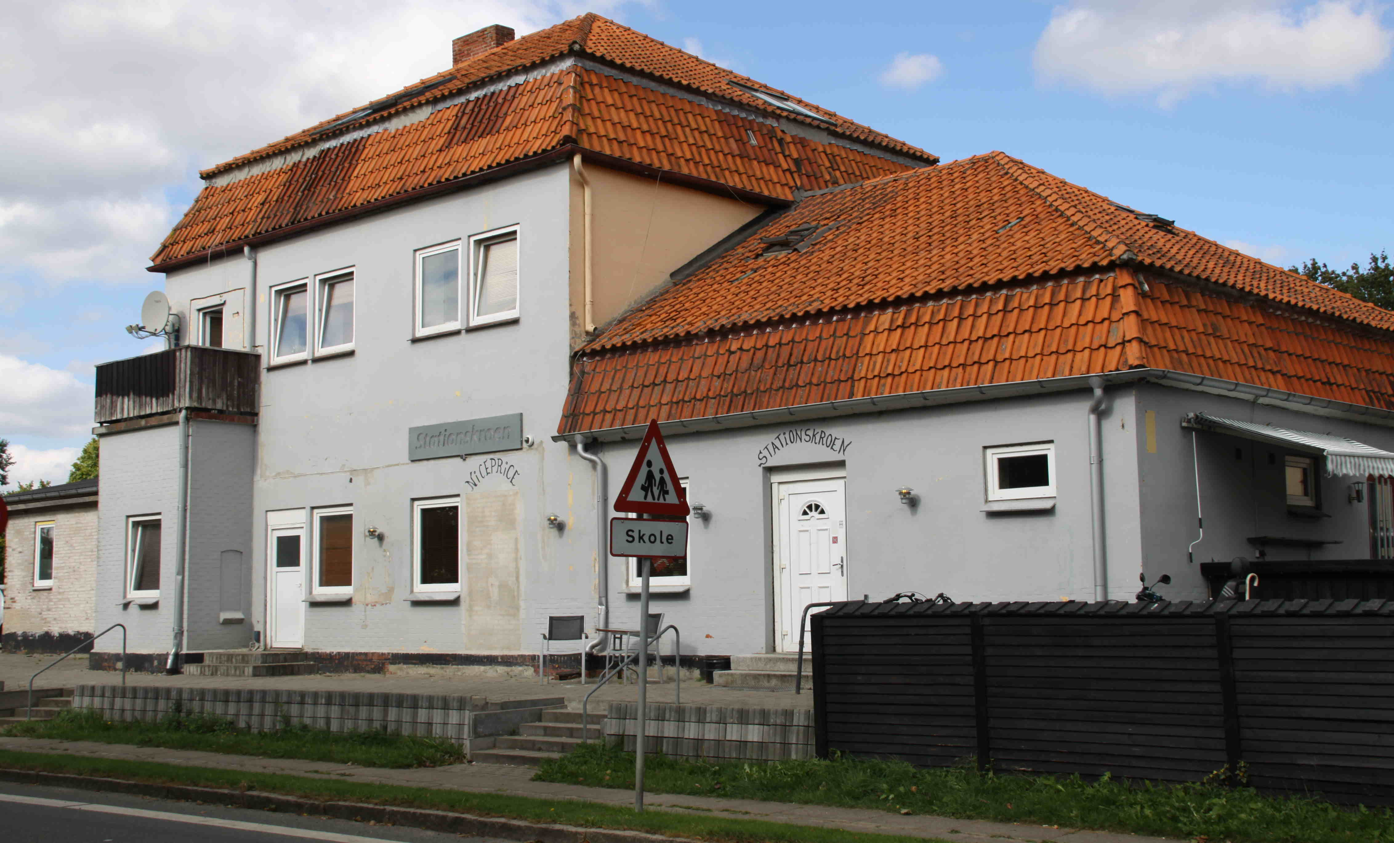 Broager station